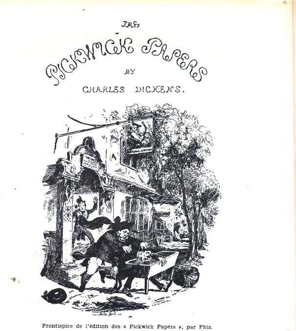 Frontispîce of Pickwick Papers, by Hablot Knight Browne (Phiz)